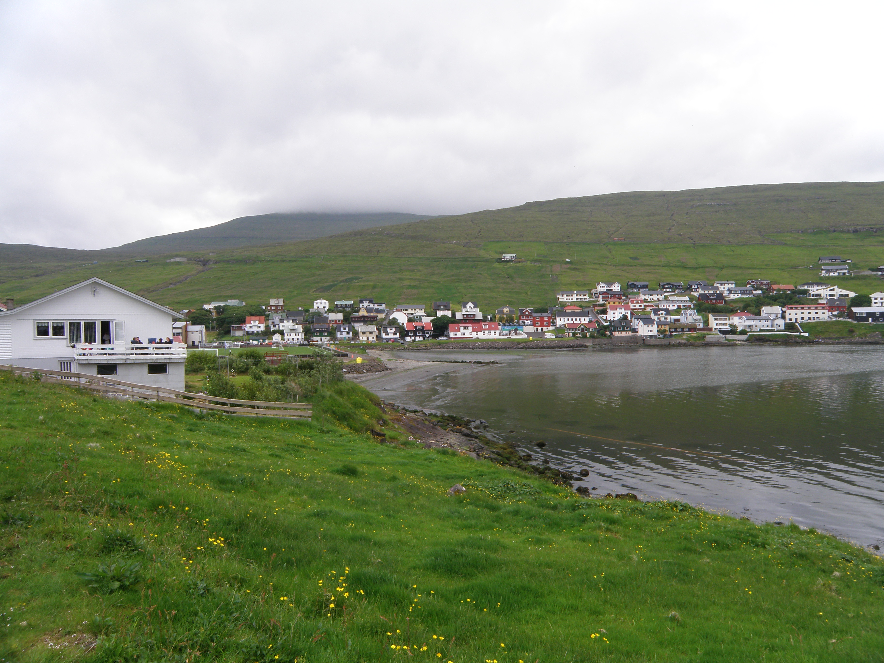 Miðvágur is one of three larger villages on the island Vágar in the Faroe Islands. The village lies next to and just west of Sandavágur. Vágur means bay, Miðvágur is the bay in the middle, meaning between Sandavágur to the east and Sørvágur to the west. The festival Vestanstevna was on this day 9 July 2011. It is held every third year in Miðvágur, every third year in Sandavágur (2012) and every third year in Sørvágur (2010 and again in 2013). The football field is next to the beach. Føroyskt: Mynd av Miðvági. Miðvágur er ein av teimum størru bygdunum í Vágunum, hon er partur av Vága kommunu. Myndin varð tikin á Vestanstevnu 2011.